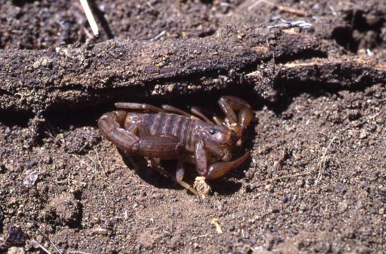 Hadruroides galapagoensis at Puerto Egas, Santiago (Galapagos Islands)